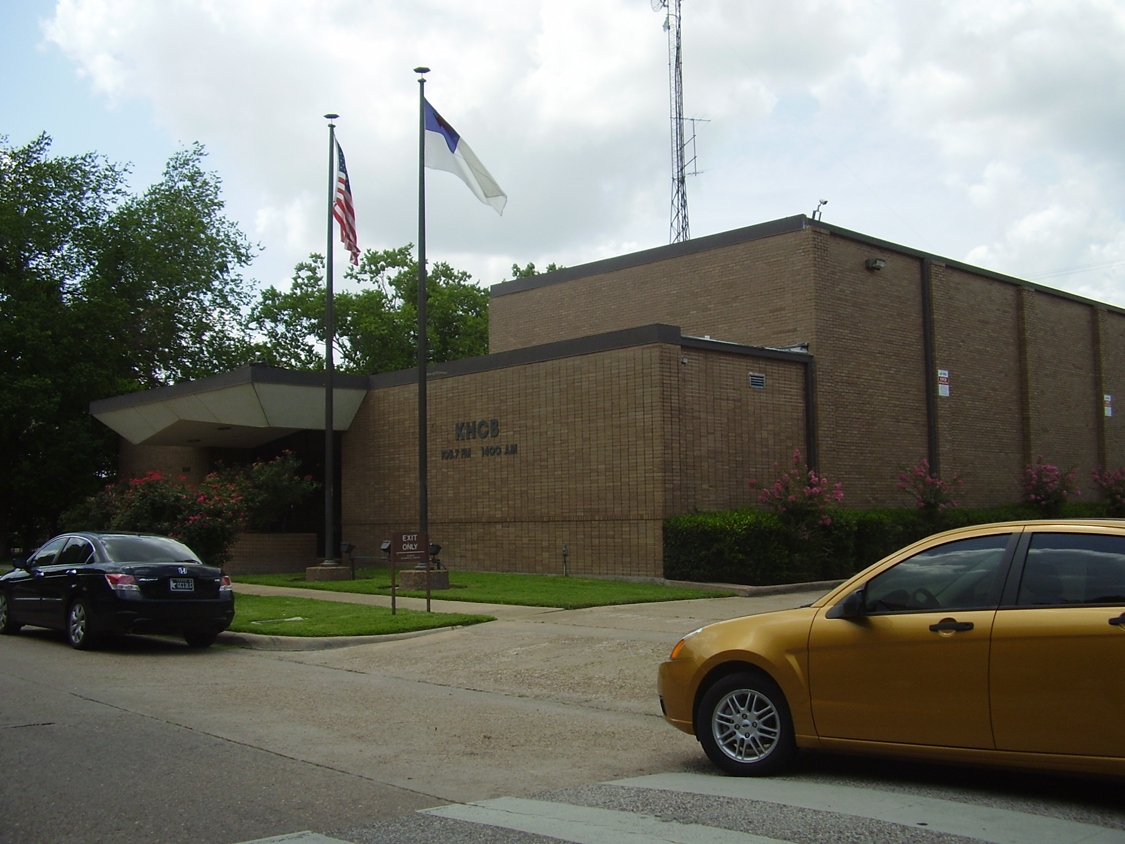 Houston Christian Broadcasters headquarters and KHCB-FM/KHCB-AM studio - 2424 South Blvd., Houston, TX 77098